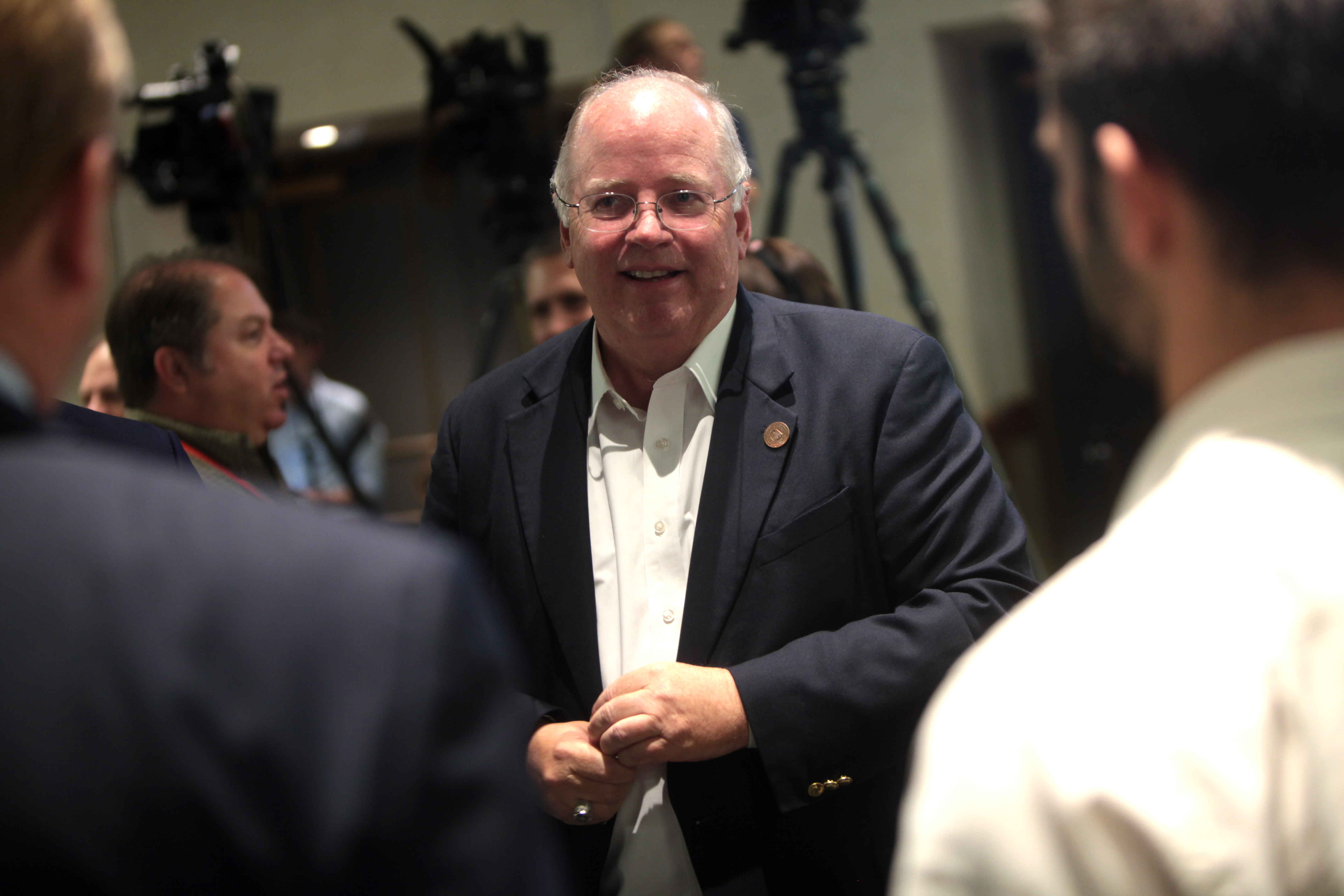 Andy Tobin speaking at a campaign rally in Phoenix, Arizona.